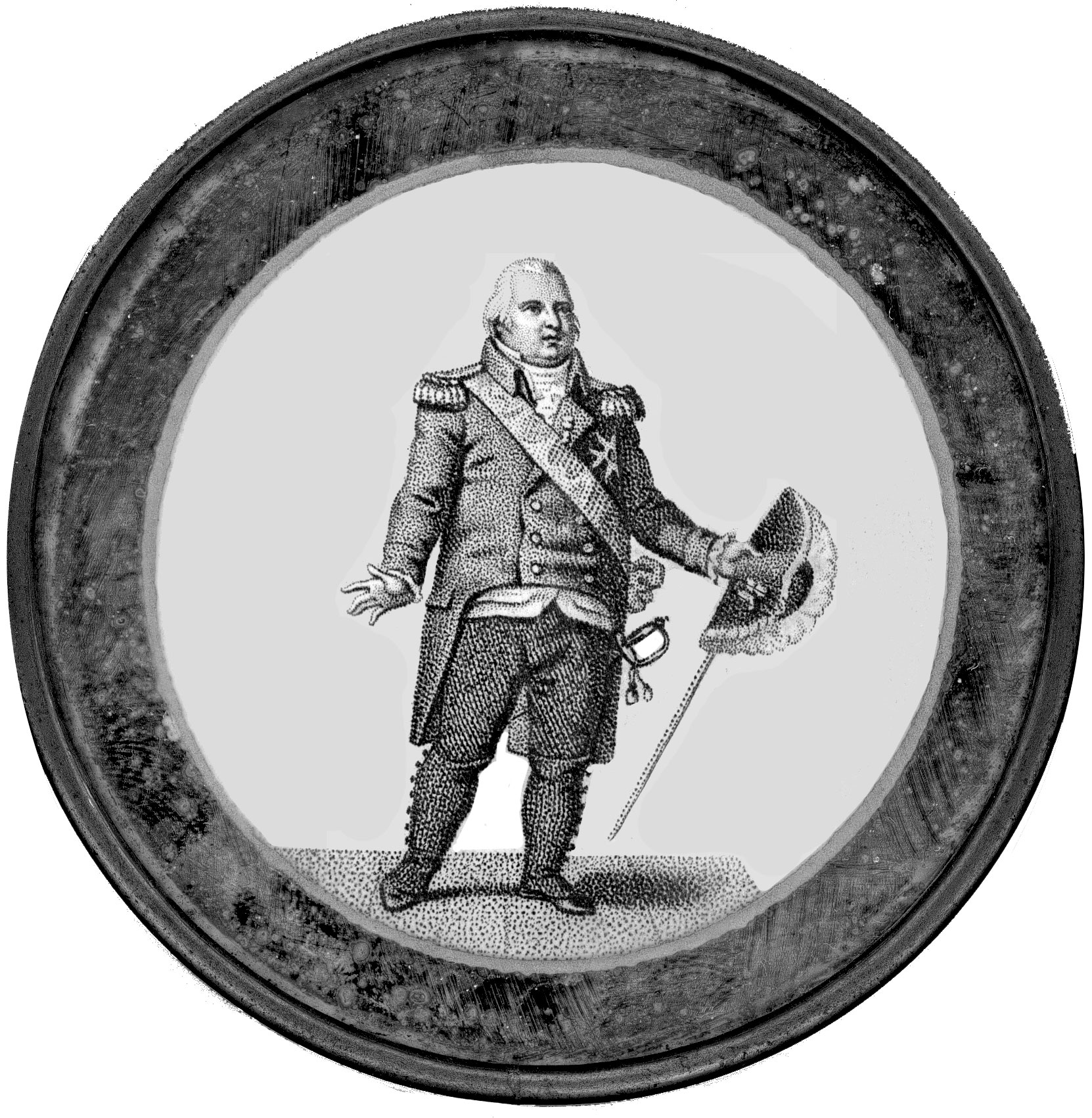 Louis XVIII.